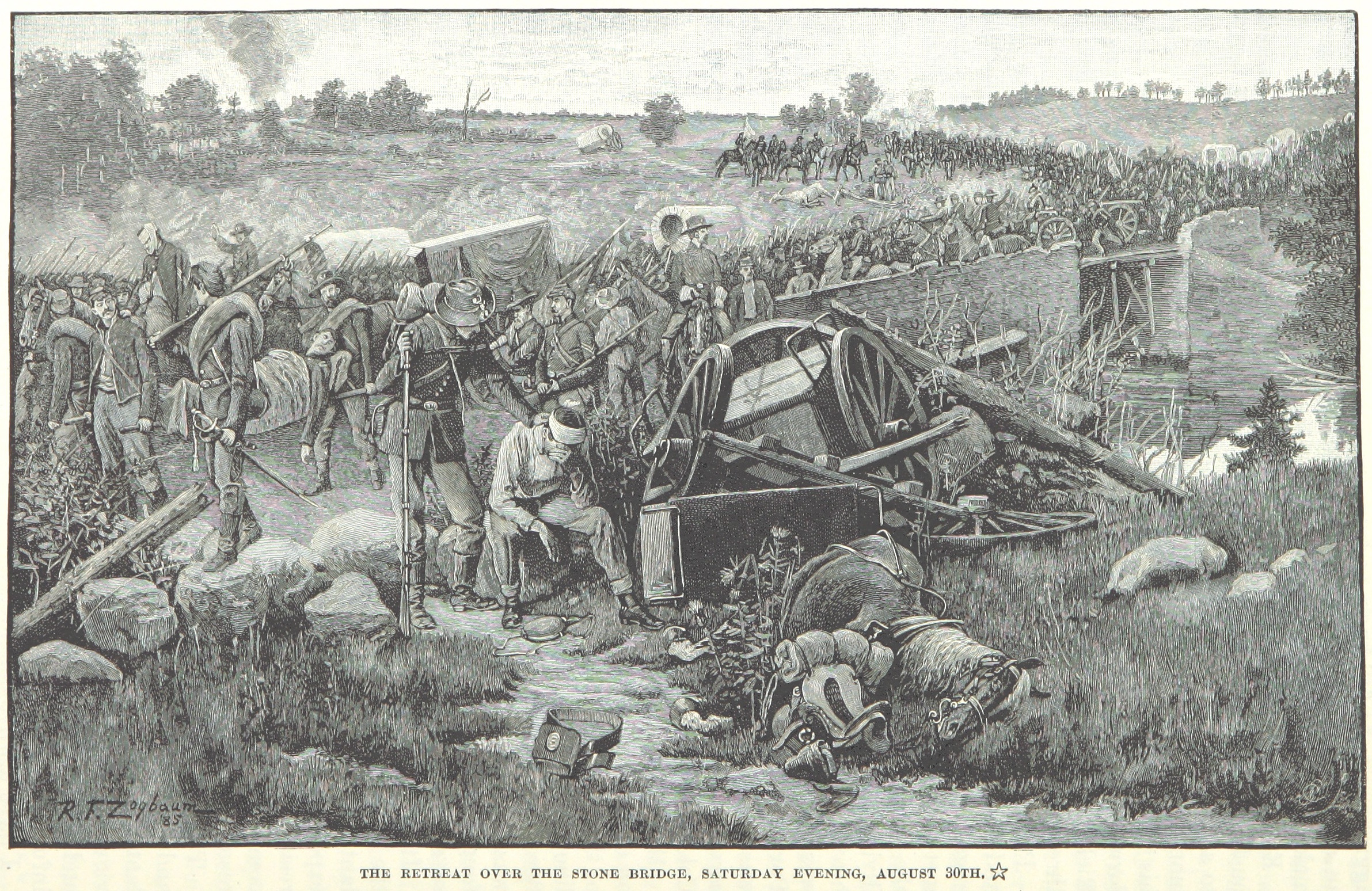 Union troops retreat after the Second Battle of Bull Run.